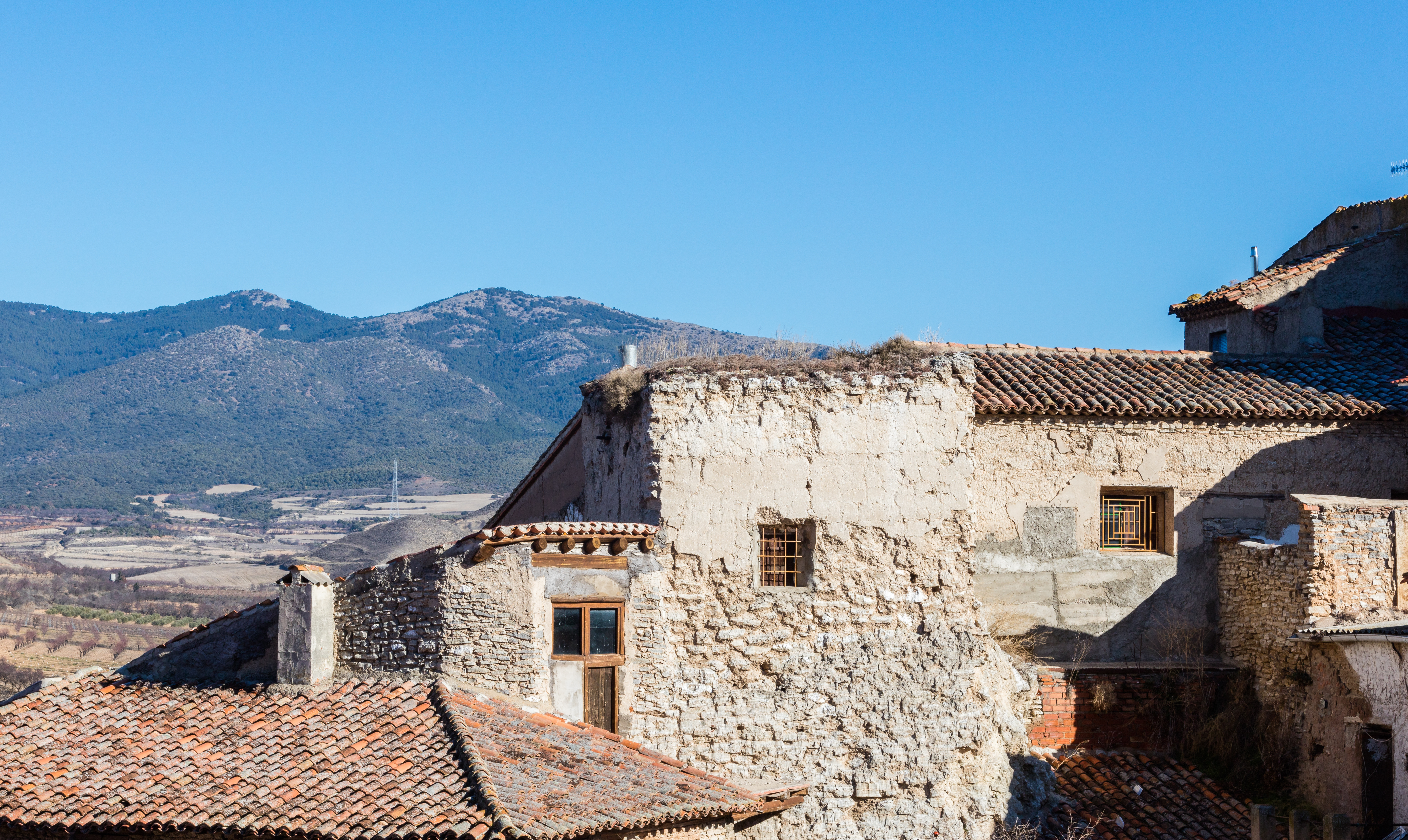 Fortified palace of Belmonte de Gracián, Saragossa, Spain